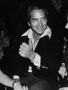 "Cincinnati Reds catcher Johnny Bench (center) chatting with some friends: Fort Lauderdale, Florida" Persistent URL: This file has been extracted from another file: Johnny Bench circa 1980.jpg